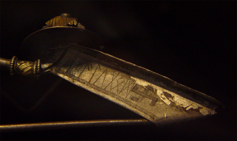 The silver fibula(DR EM85;123) (an ancient brooch) found in Værløse, Zealand, Denmark. The Elder Futhark Proto-Norse runic inscription reads "alugod". According to the National Museum of Denmark where it is on display, the fibula is from the 3rd century CE.